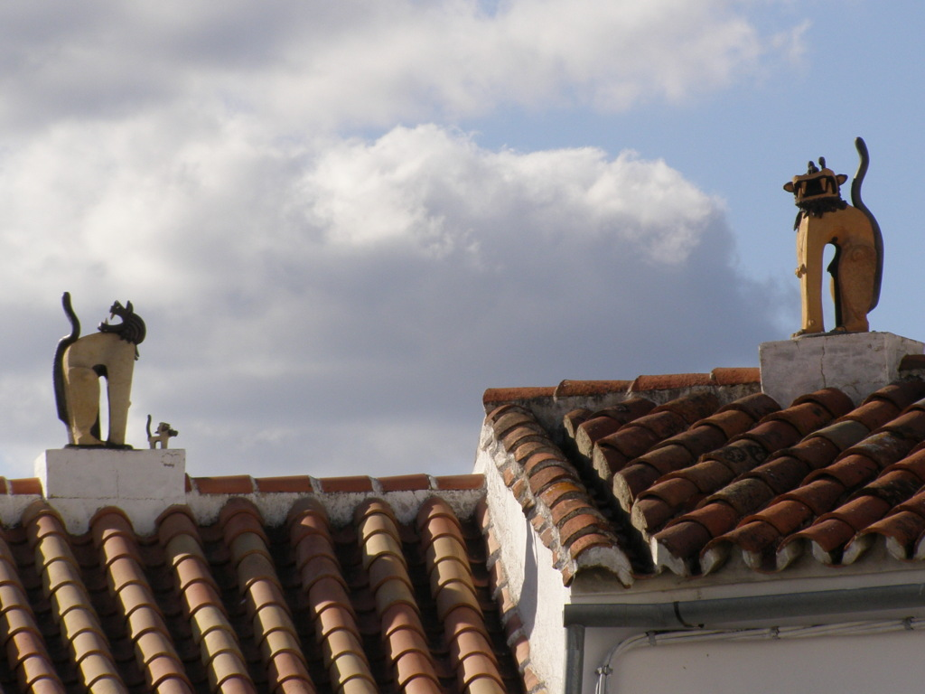 Art on the roofs of Genalguacil, Málaga, Spain